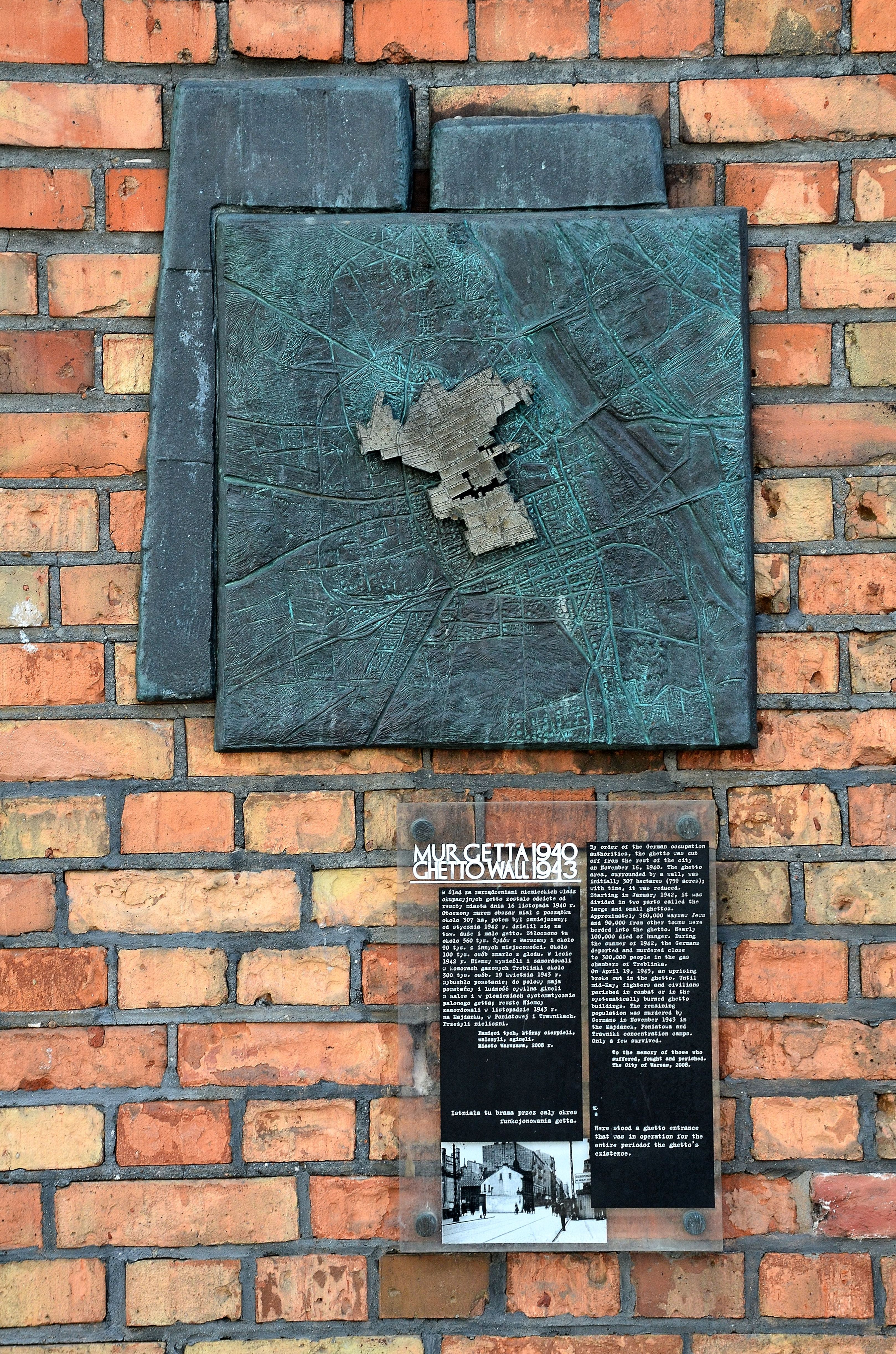 Plaques commemorating the Warsaw Ghetto borders on the facade of the Duschik i Szolce factory at the intersection of Żelazna and Grzybowska Streets